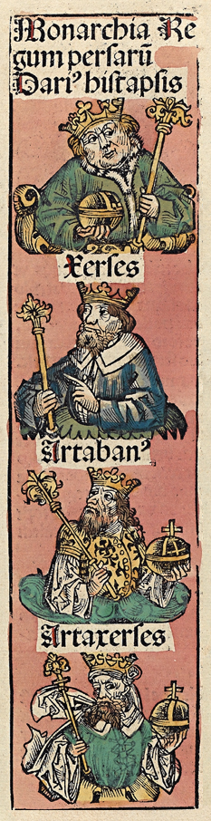 Woodcut from the Nuremberg Chronicle